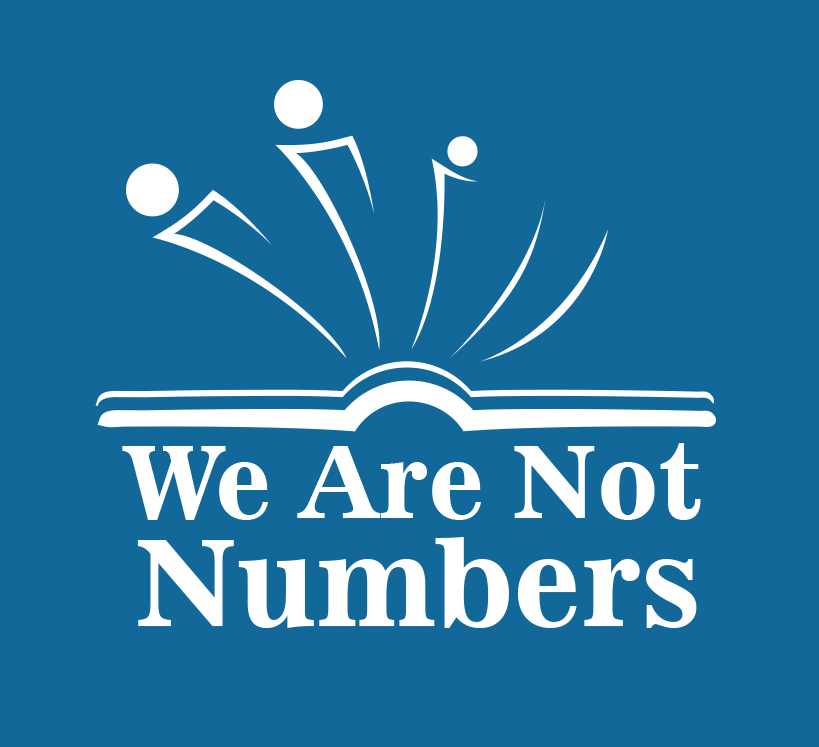 We Are Not Numbers